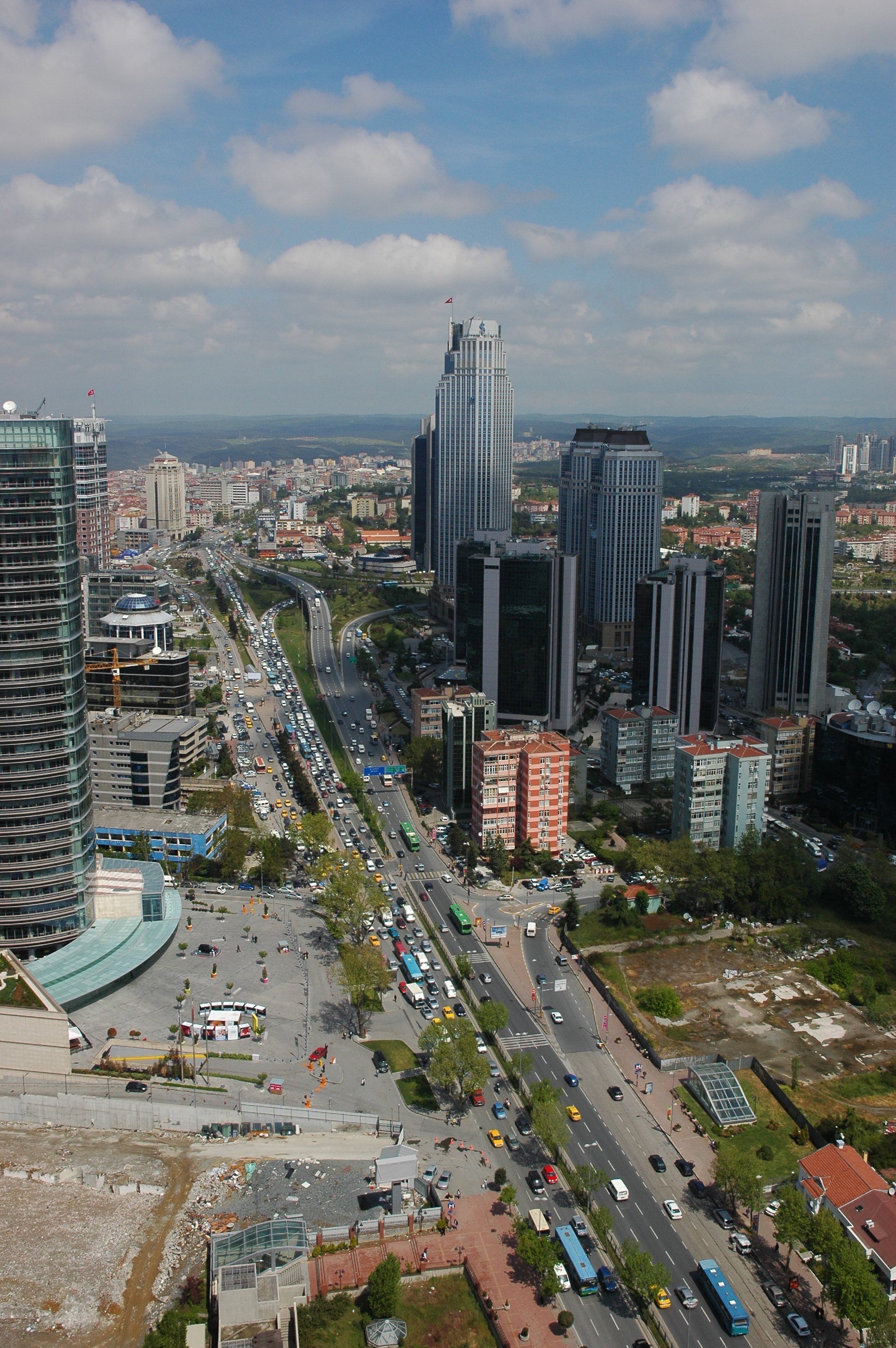 Levent, Istanbul, Turkey.